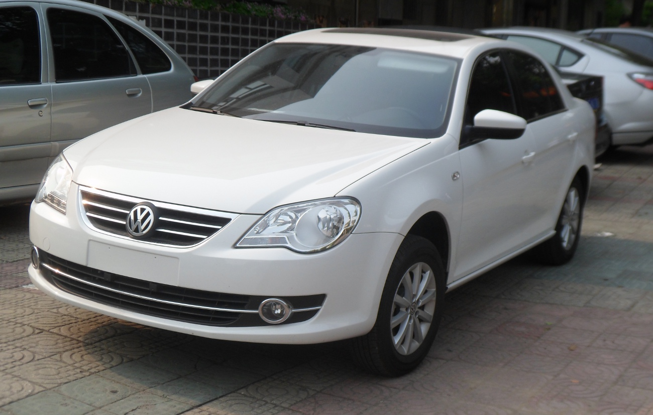 Volkswagen Bora CN II photographed in Shanghai, China.